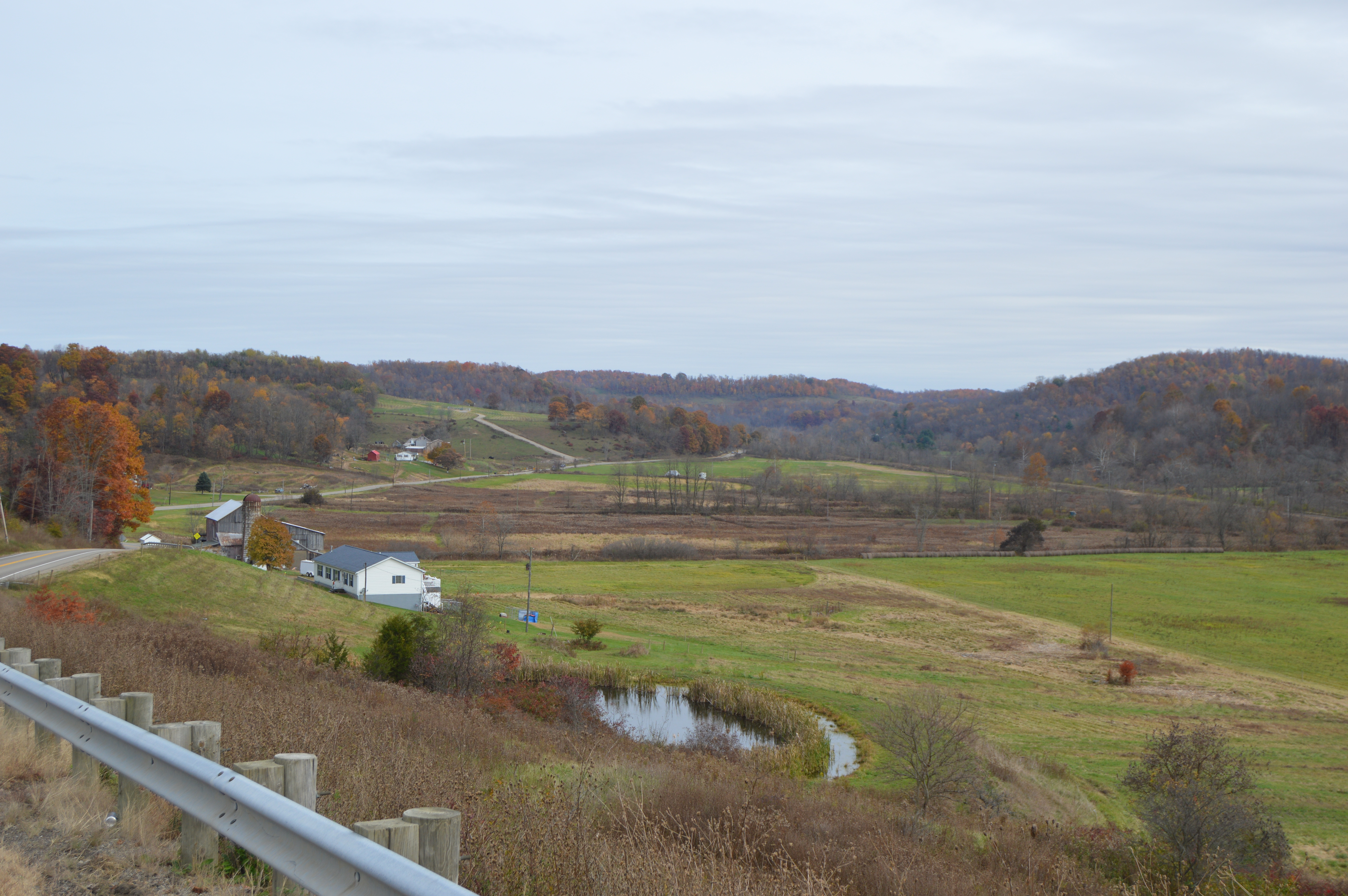 Fields and woods on the southern side of State Route 265 just east of Quaker City in Millwood Township, Guernsey County, Ohio, United States.